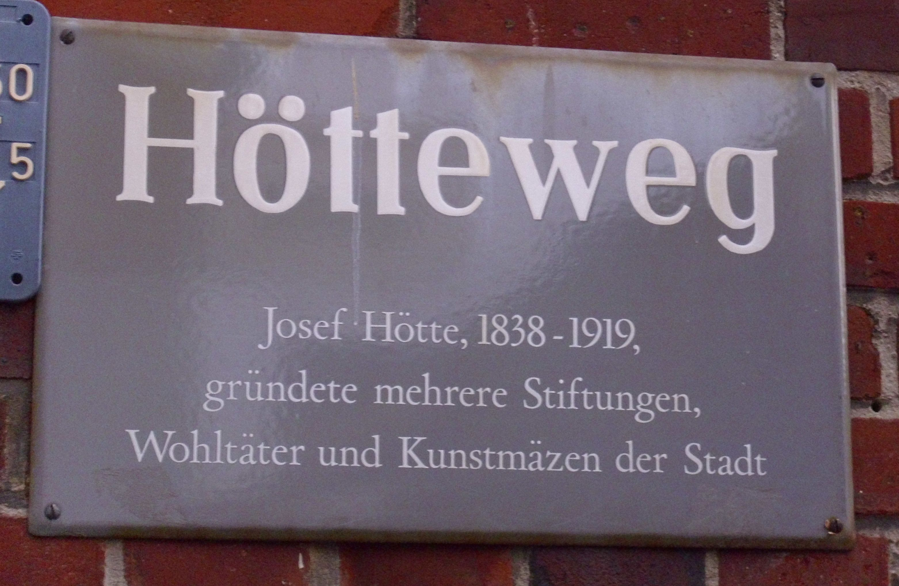 Roadsign "Hoetteweg" in the center of the city of Münster (Westfalia, Germany)